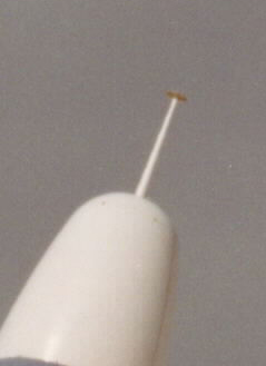 Trident I - aerospike. Cropped version of this picture